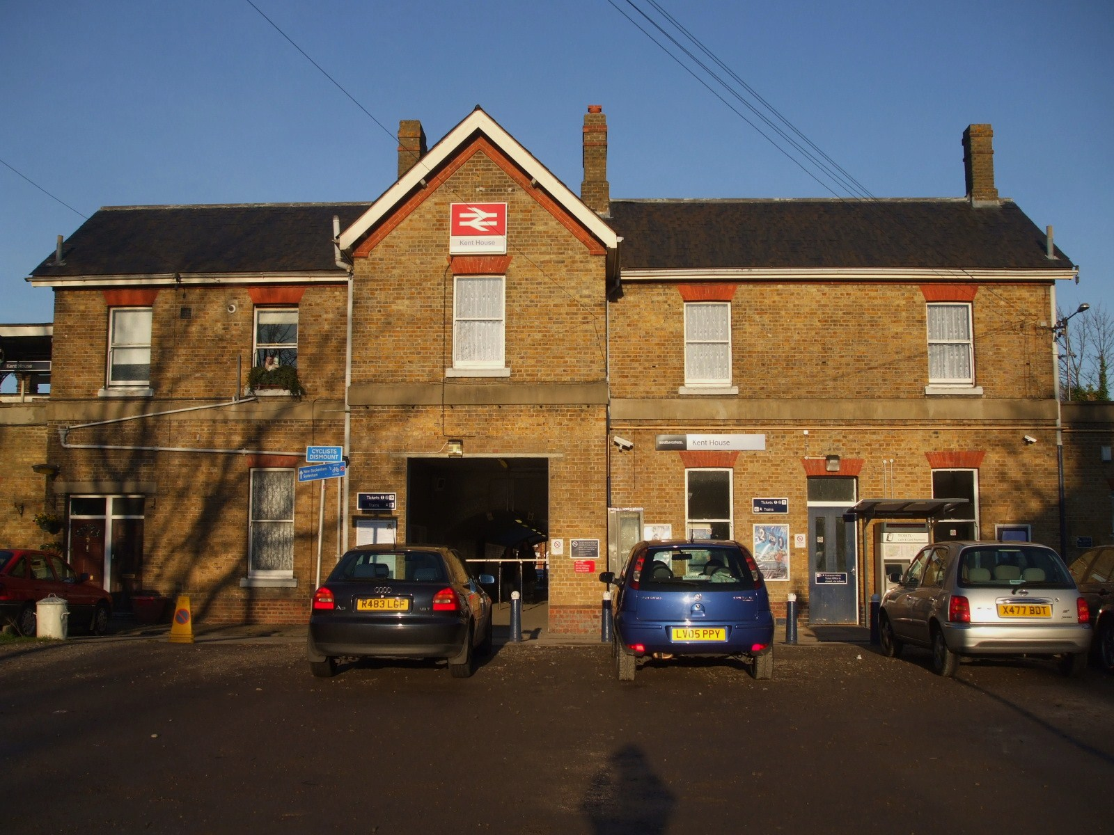 Kent House station building, on the London-bound side